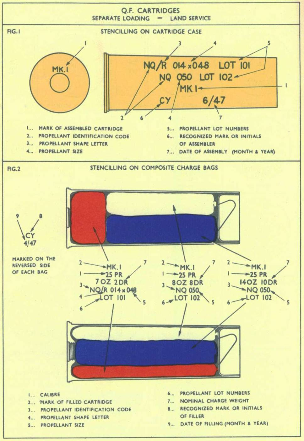 Diagrams showing markings and layout of propellant charges in cartridge for British QF 25 pounder gun.